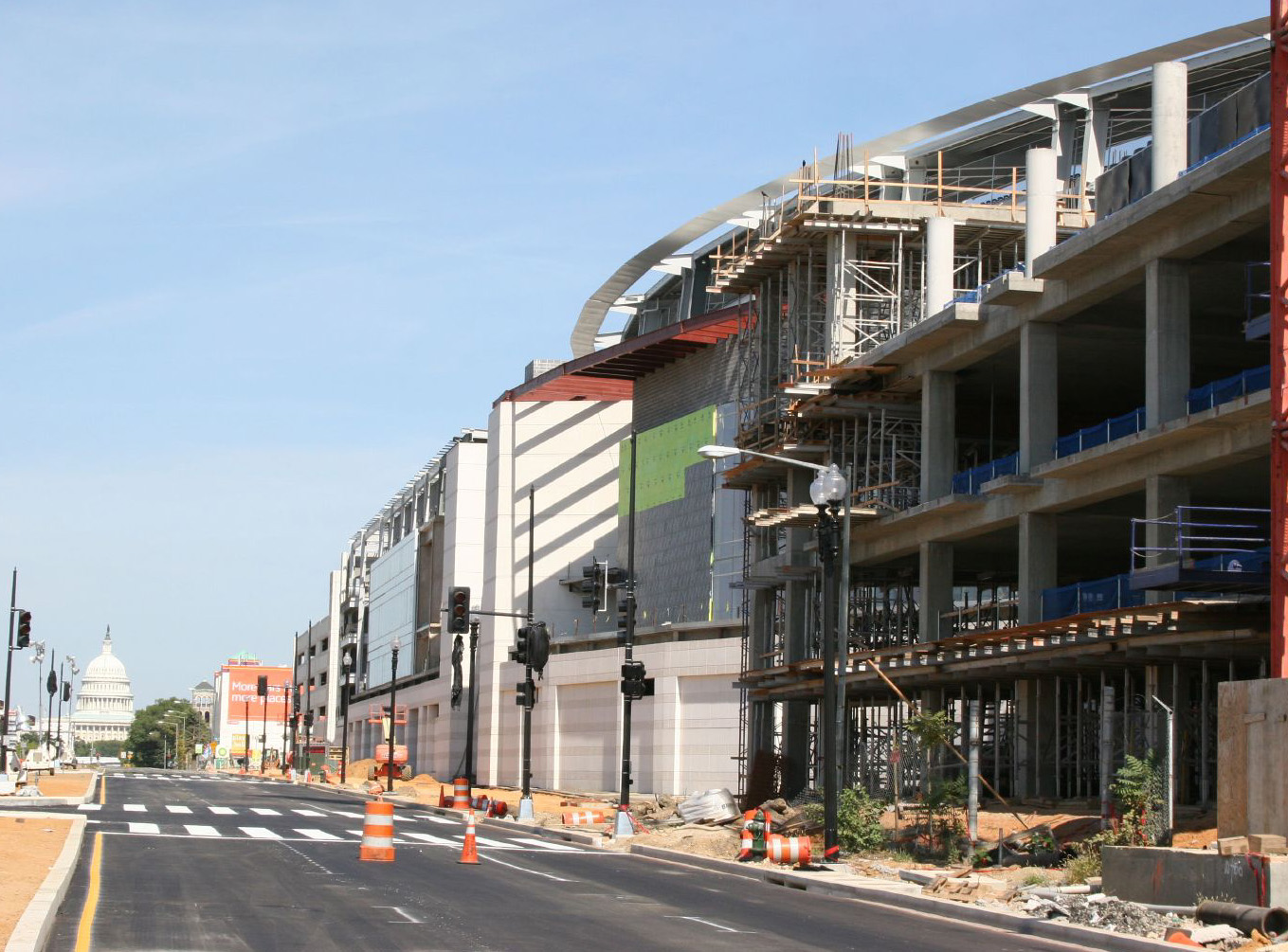 Nationals Park, still under construction in September 2007